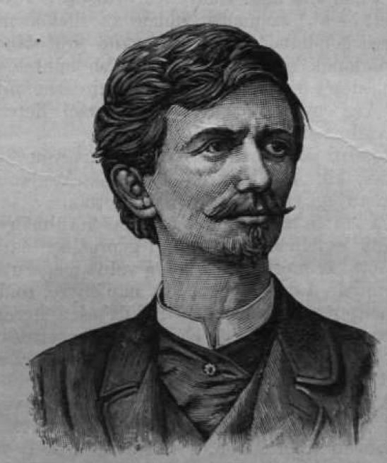 Ödön Jónás